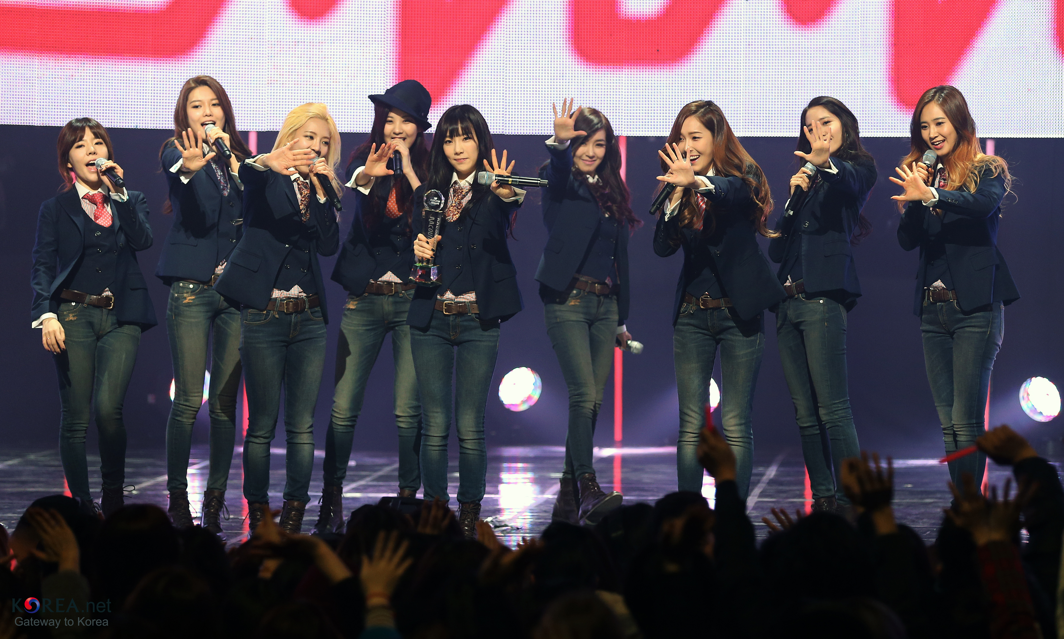 Mcountdown Girl’s Generation Comeback Performance CJ E&M Center, Sangam-dong, Mapo-gu, Seoul 2014.03.06. Related Article - -English- Girls’ Generation hits the top with comeback album -Español - Girls’ Generation reaparece con nuevo disco, y se coloca en primer lugar -Deutsche- Girls’ Generation stürmen die Charts mit Comeback-Album -русский- Girls’ Generation попадают на вершину с «альбомом-возвращением» -français- Retour gagnant pour les filles de Girls’ Generation -中文- 少女时代首场回归舞台获一位 -日本語- やはり少女時代、久しぶりのランキング番組出演で早くも1位 - tiếng Việt- SNSD danh bất hư truyền, giành vị trí quán quân ngay lần đầu trở lại showbiz -Arabic- فريق جيرلز جينيريشن يتألق بألبوم العودة Ministry of Culture, Sports and Tourism Korean Culture and Information Service ( Jeon Han 엠카운트다운 생방송 소녀시대 복귀 무대 2014-03-06 CJ E&M 센터 관련 기사 코리아넷 “역시 소녀시대, 컴백 첫 무대에서 정상” 문화체육관광부 해외문화홍보원 코리아넷 전한